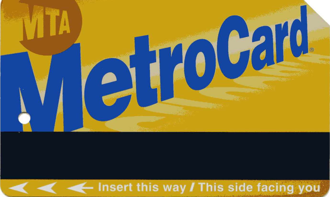 United States, New York City, Metropolitan Transportation Authority (New York). Metro Card transit pass cover.